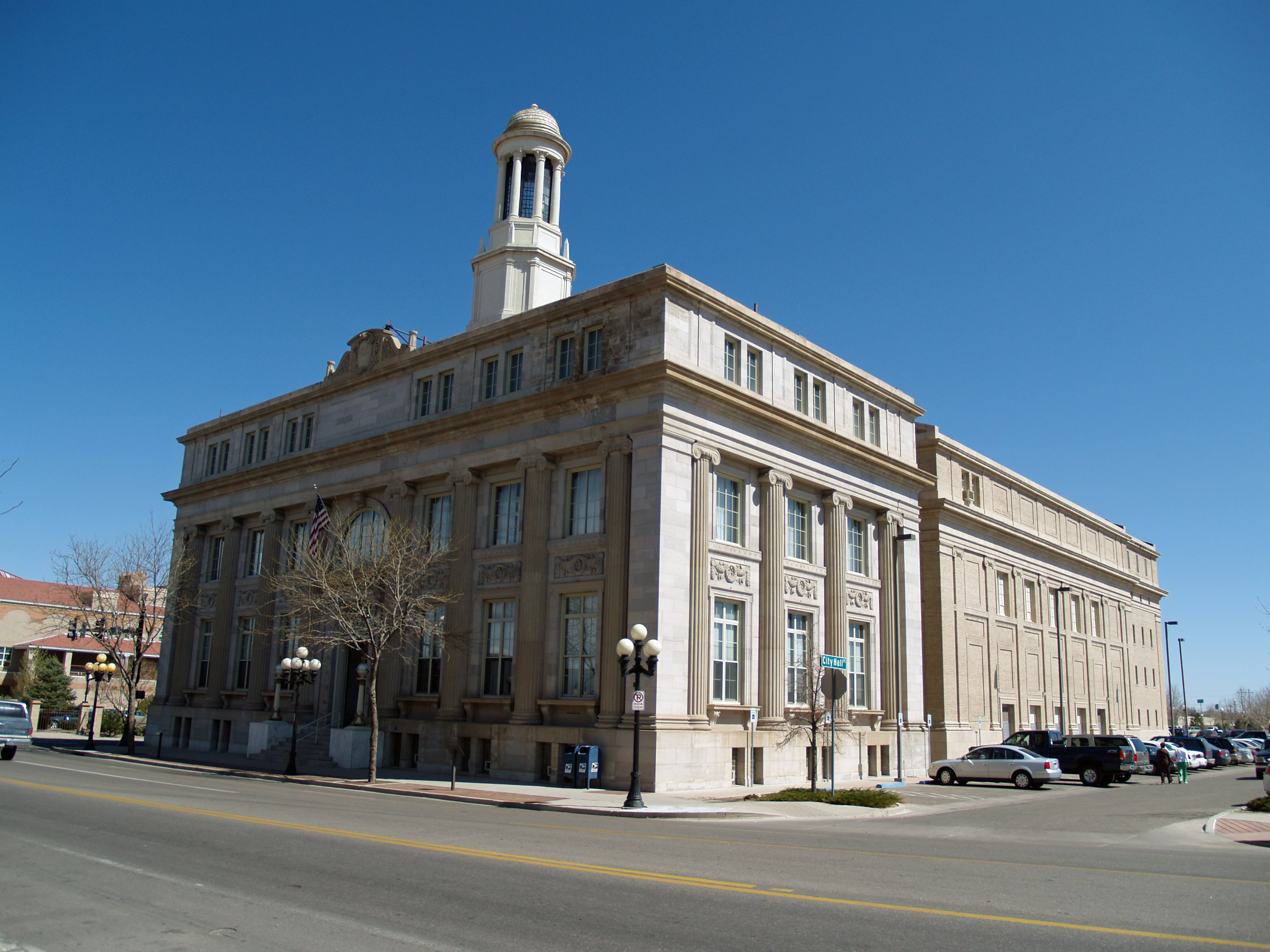 Pueblo City Hall in Colorado.